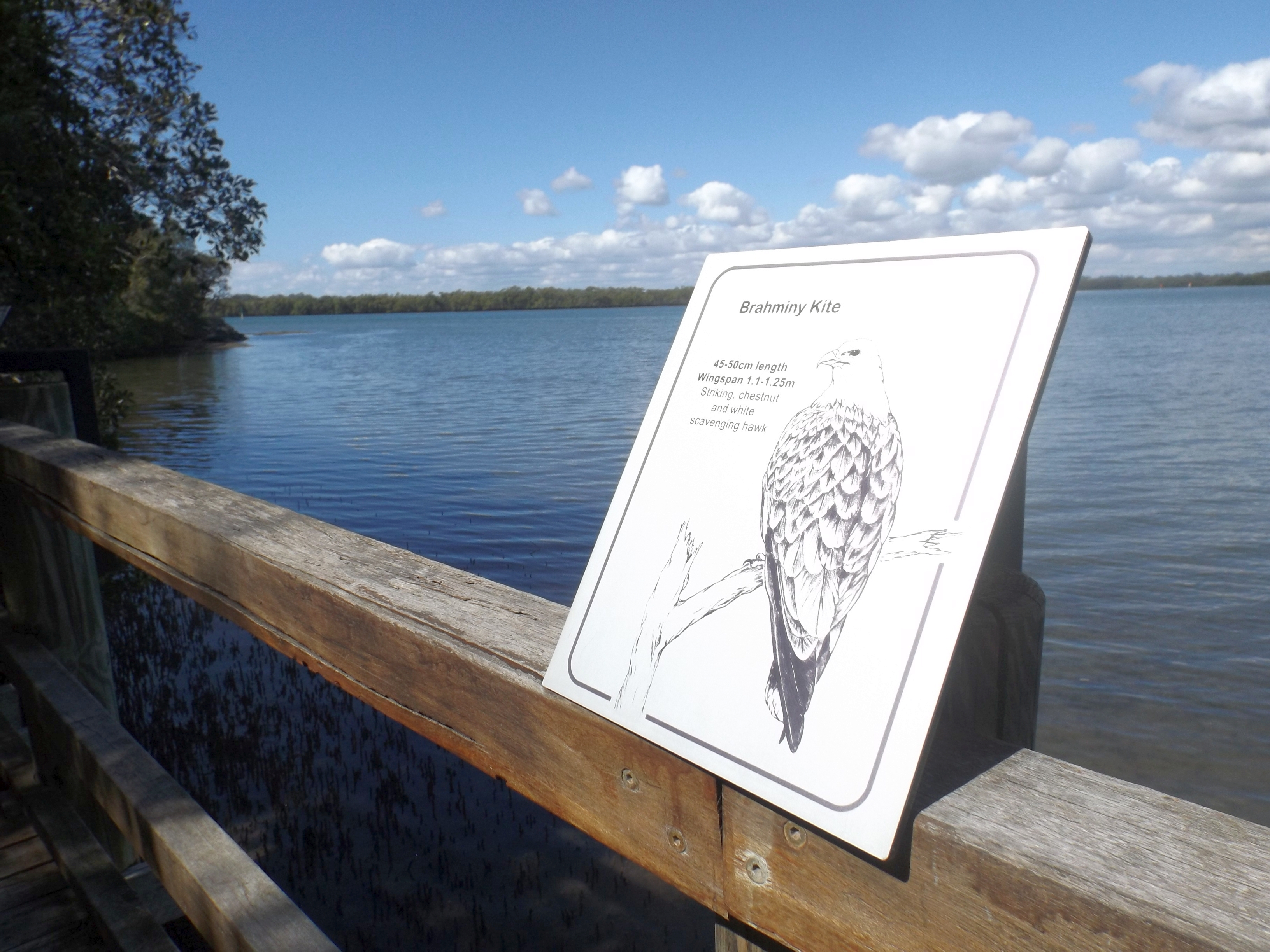 Photo of Pine River and Osprey House boardwalk at Griffin, Moreton Bay Region, Queensland, Australia.